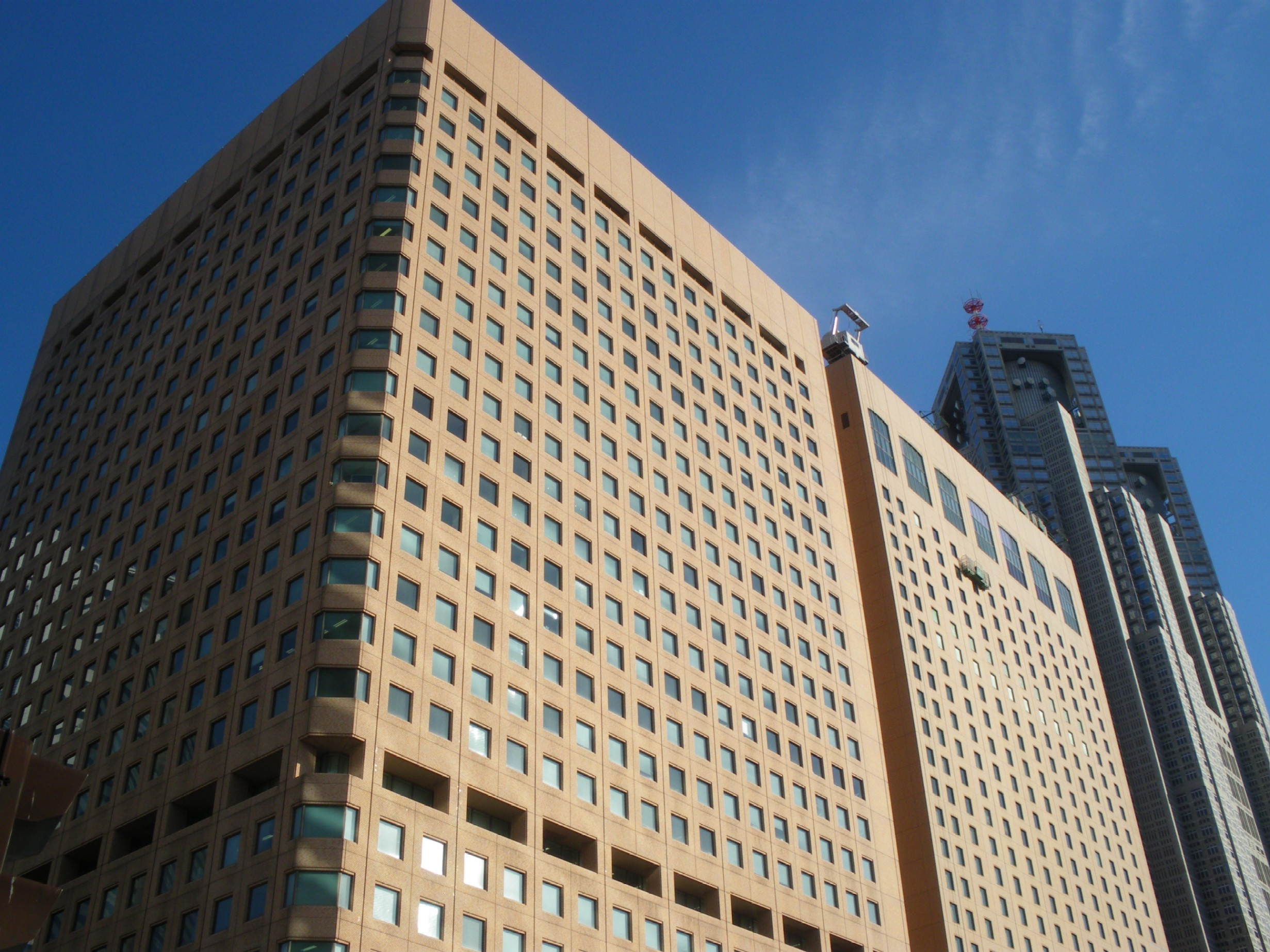 photo of Shinjuku daiichi seimei building(left) and Hyatt Regency Tokyo(right).These are the skyscrapers in Shinjuku,Tokyo,Japan.(Seen from Shinjuku Chuo Park Crossing side)